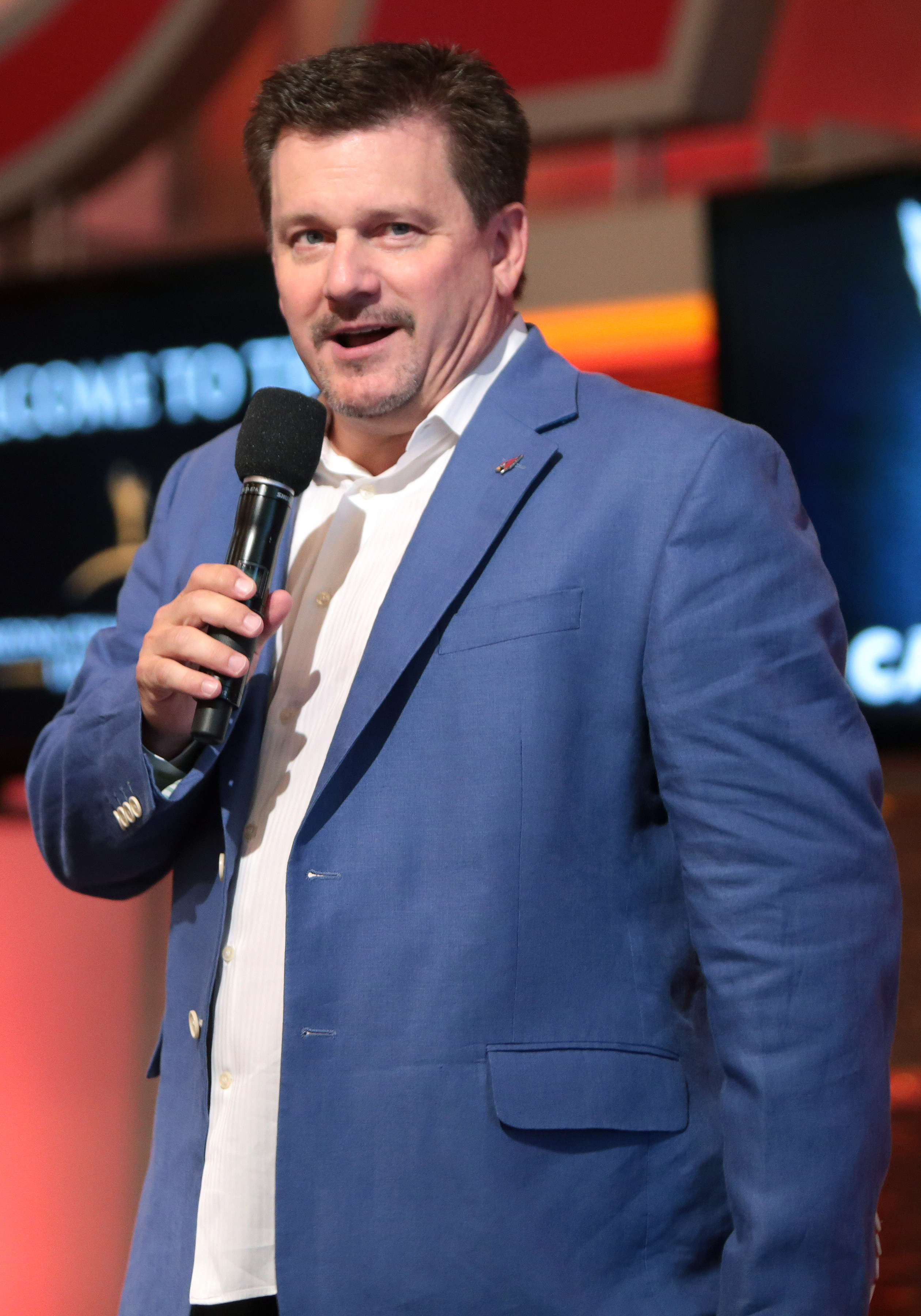 Michael Bidwill speaking at an event at University of Phoenix Stadium in Glendale, Arizona.